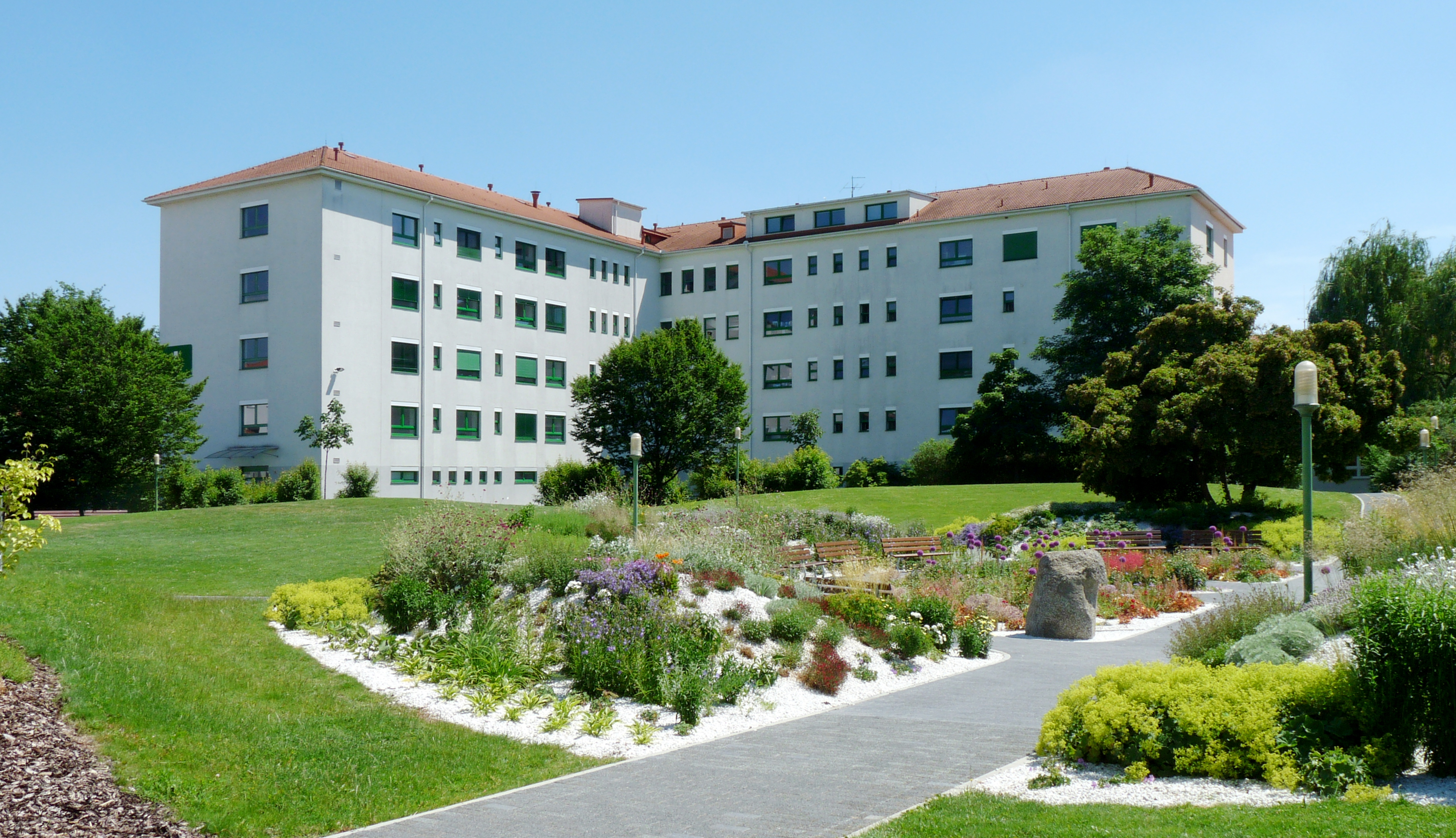 Building I of the hospital in České Budějovice, South Bohemian Region, Czech Republic.